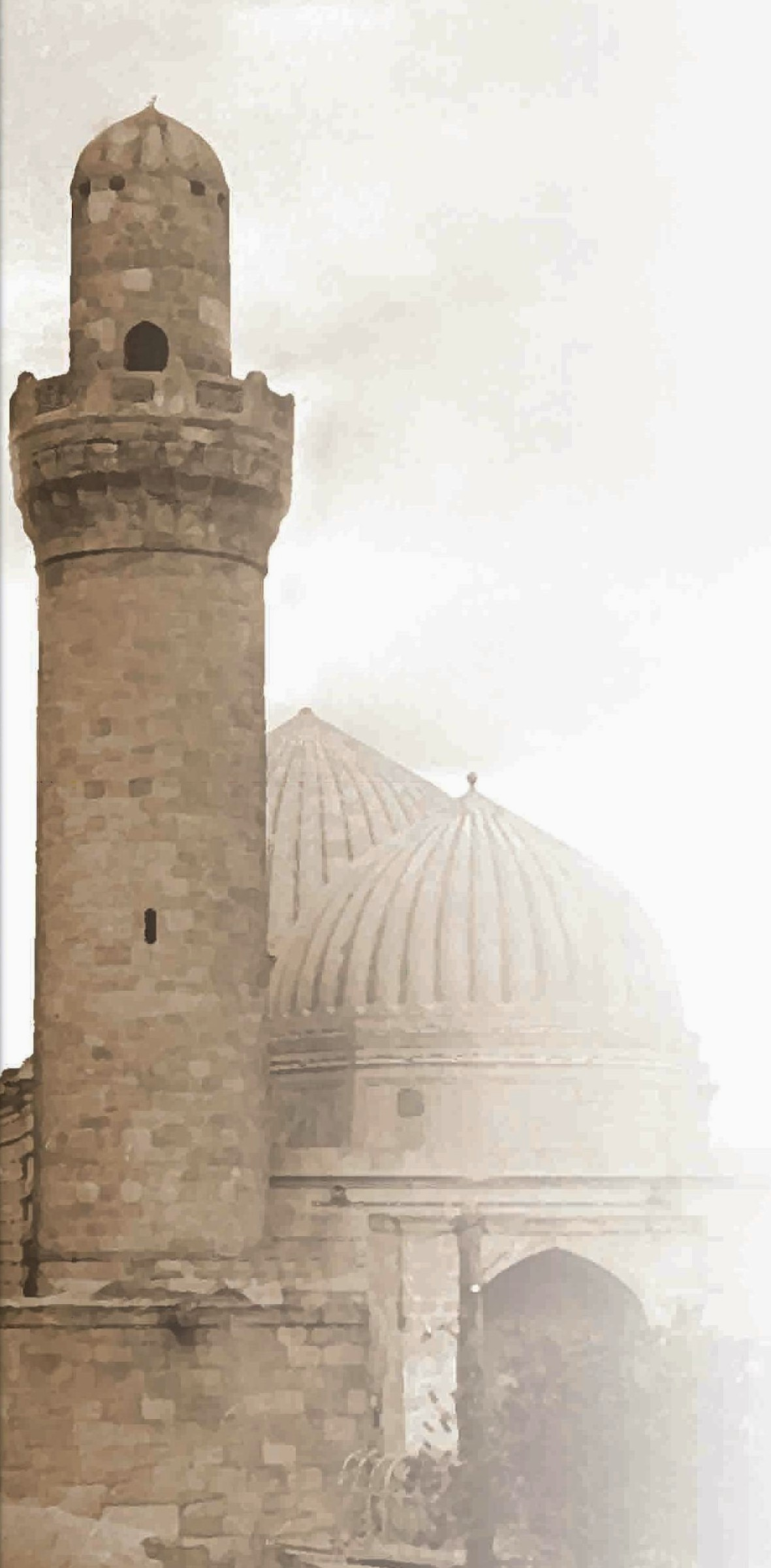 Bibi Eybat mosque in Baku (Azerbaijan)